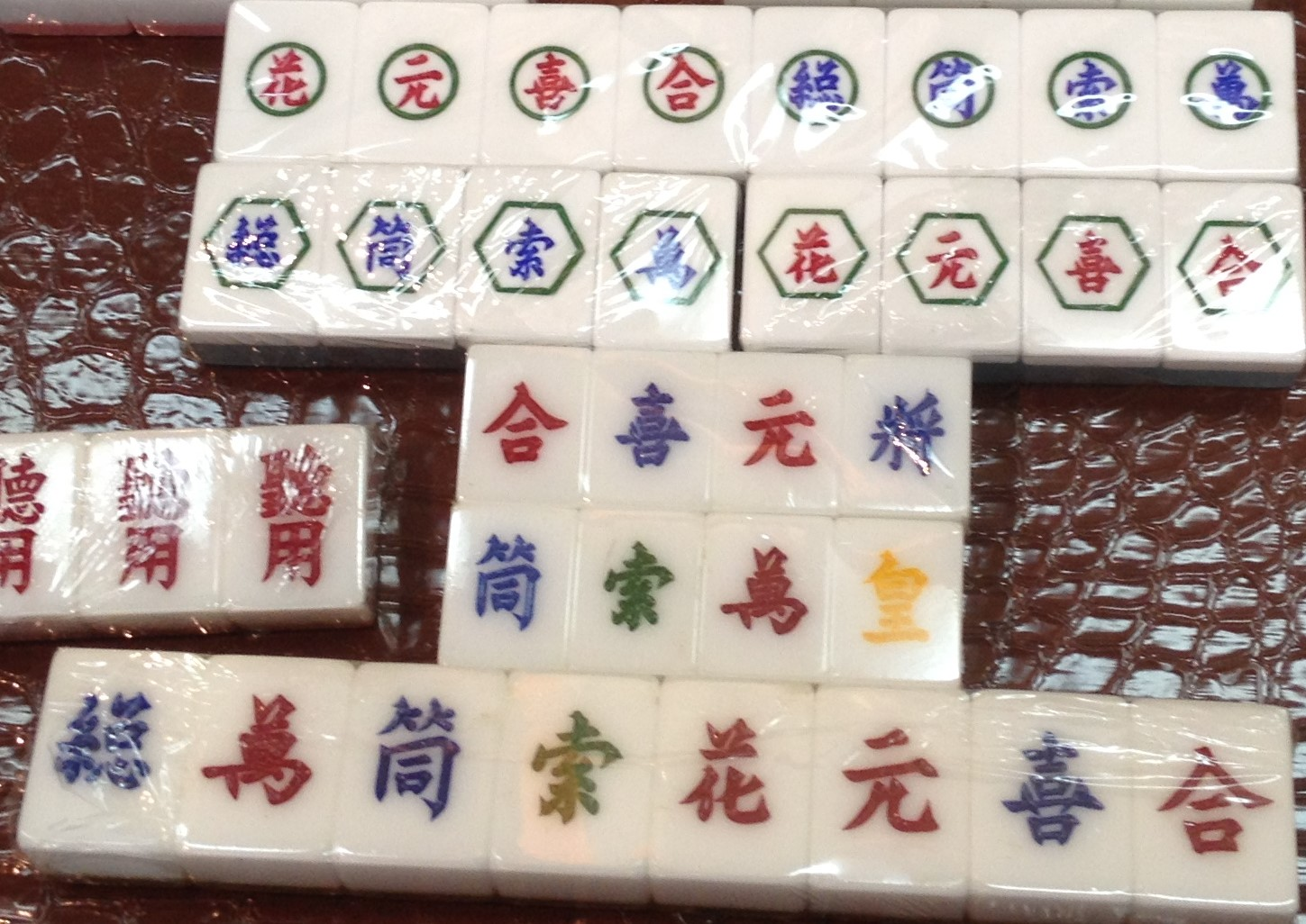 Assorted mahjong joker tiles